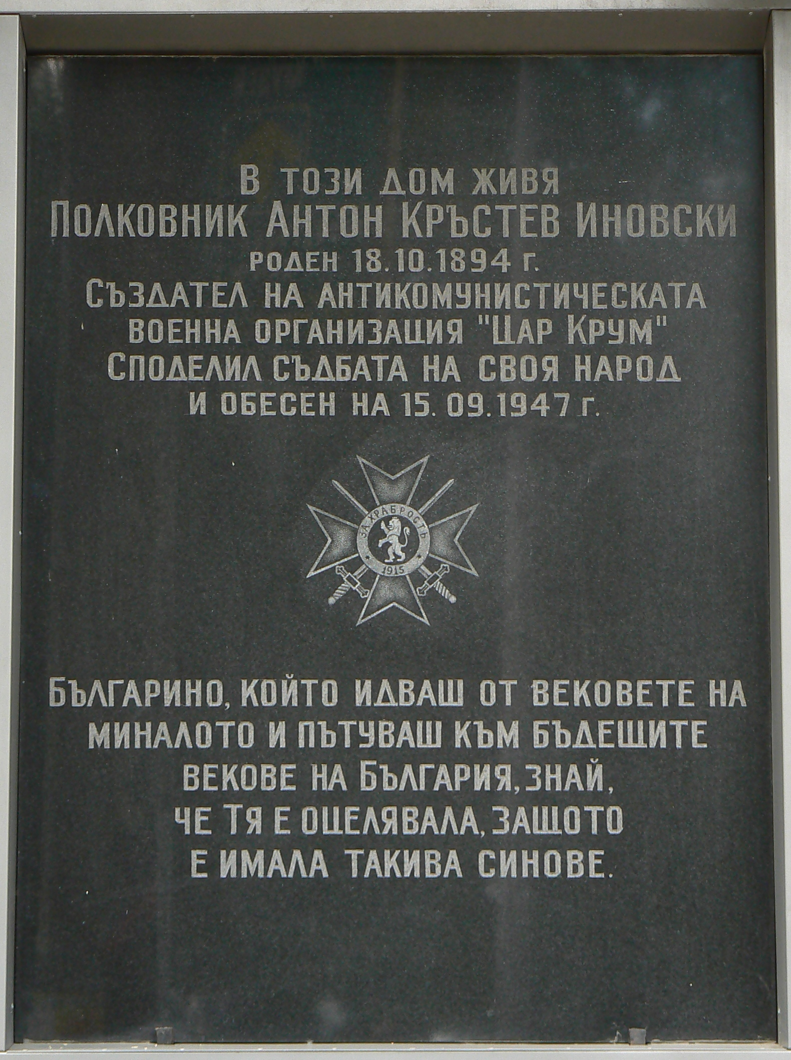 The memorial plaque on the house in Sofia where lived Bulgarian colonel Anton Krustev Inovski.